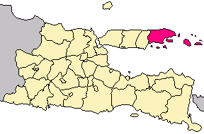 Map of Sumenep county, Madura island, Indonesia